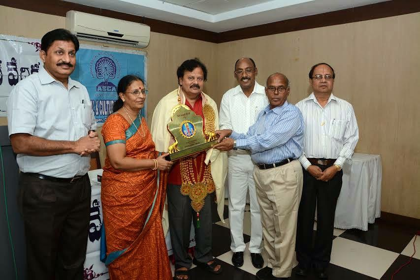 చెన్నైలోని వేద విజ్ఞానవేదిక లో సన్మానం